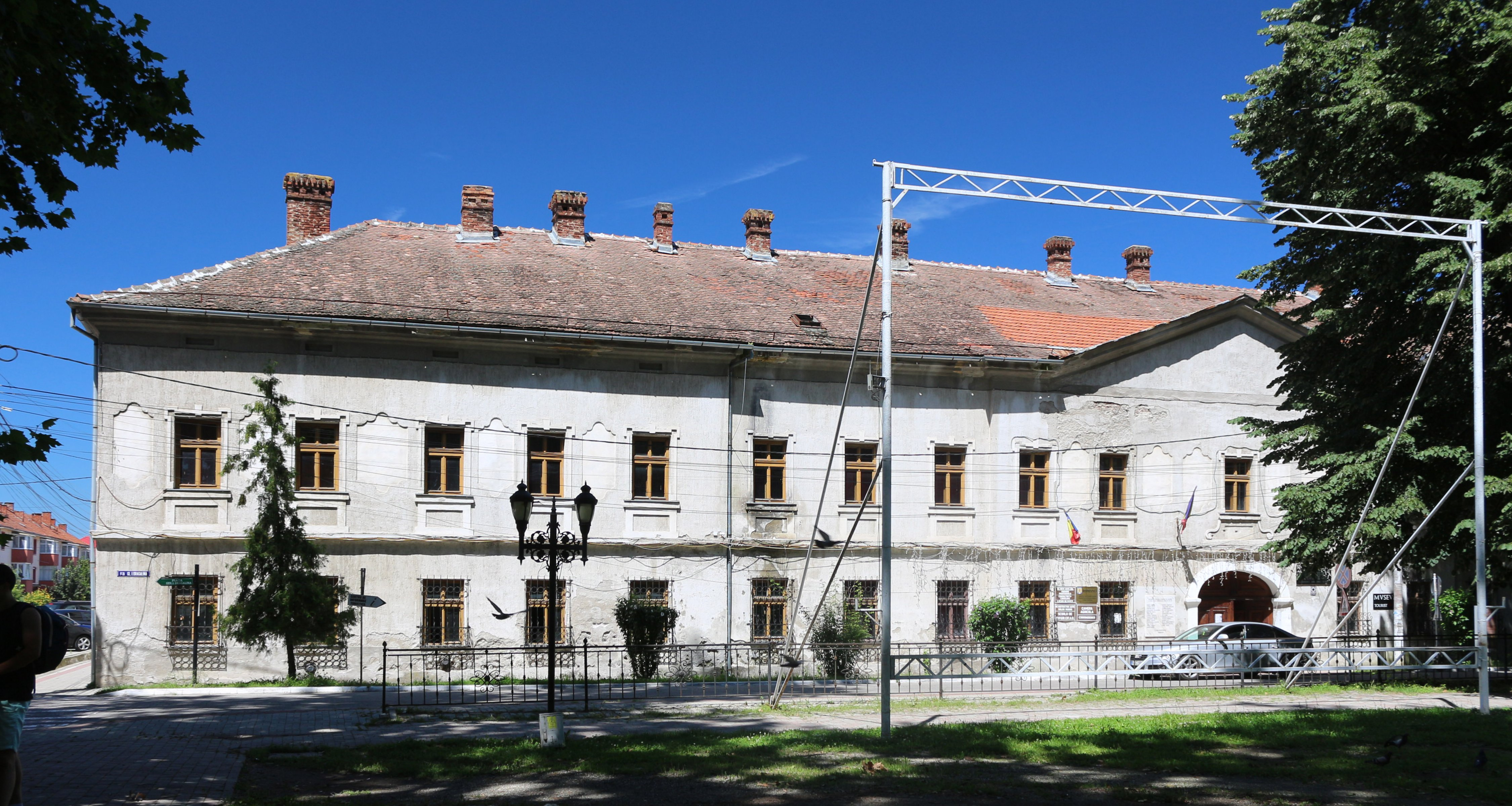 Former border guard barracks, now a museum, Ioan Dragalina Sq., no. 2, Caransebeș, Romania, built 1739